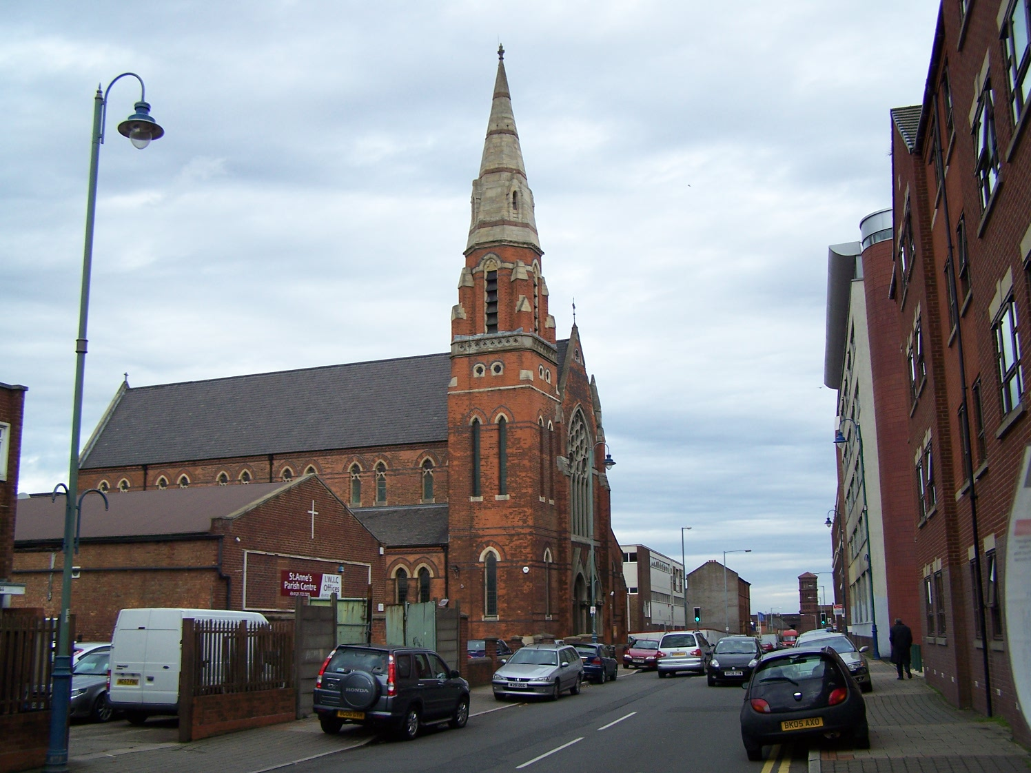 St Anne's Catholic Church, Digbeth